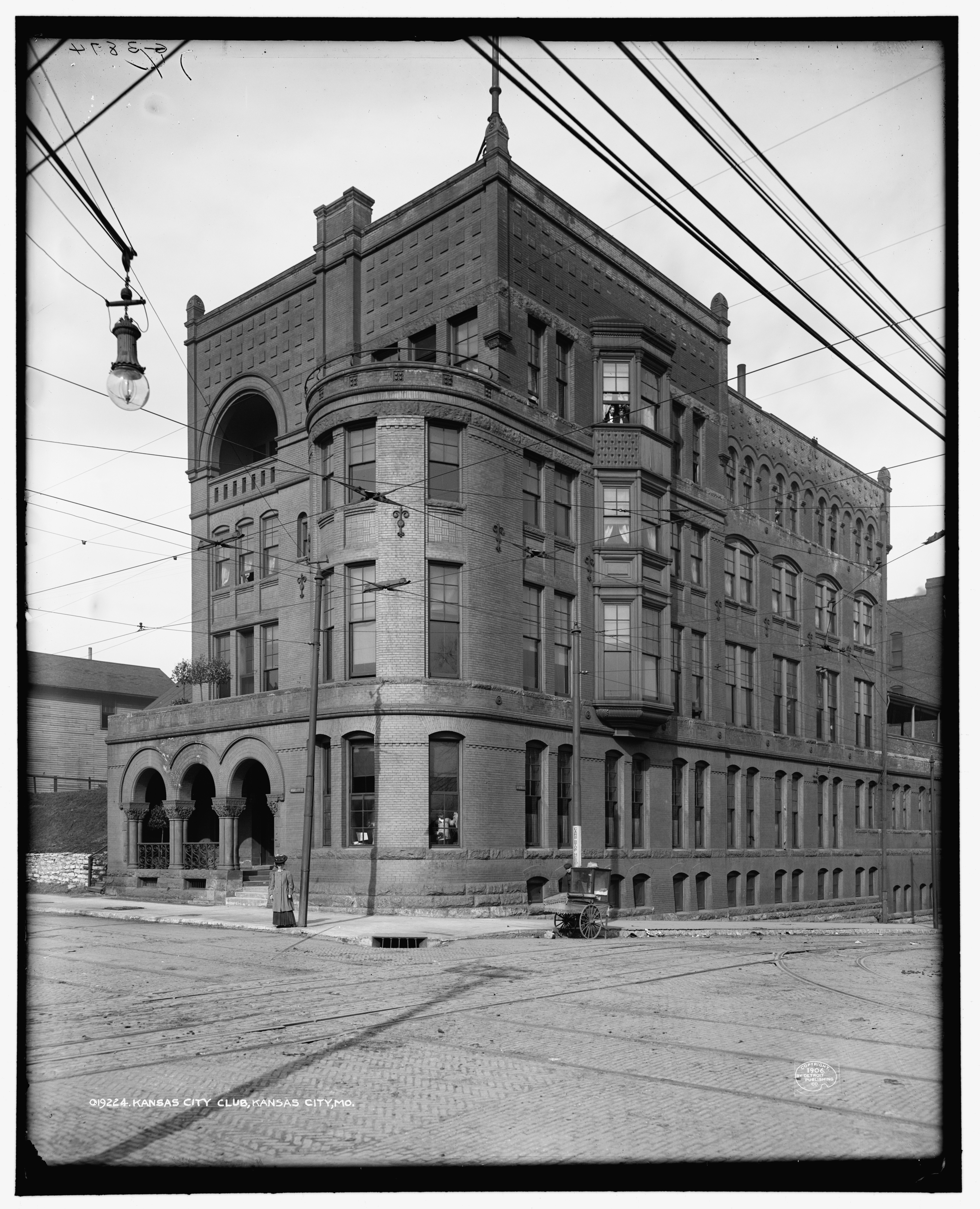 Historic photograph of Kansas City, Missouri, USA, from the Library of Congress. This photograph is in the public domain because first published before 1923. Kansas City Club, Kansas City, Mo.. Detroit Publishing Co., circa 1906.